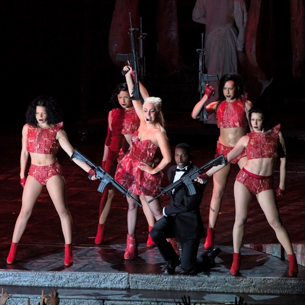 Lady Gaga performing "Americano" on the Born This Way Ball tour